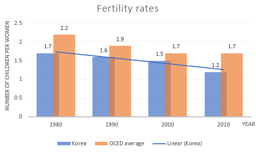 It compares fertility rate between OECD average and Korea from 1990 to 2010.